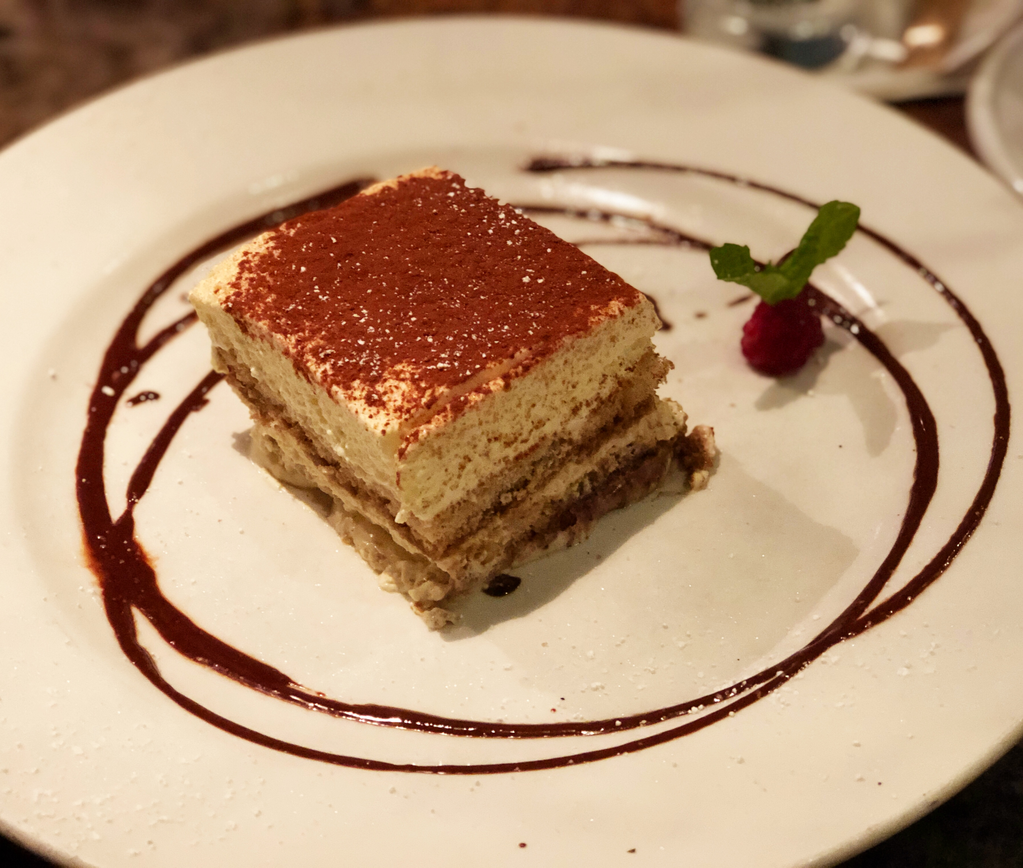 Tiramisu at Cucina Paradiso in Petaluma, California